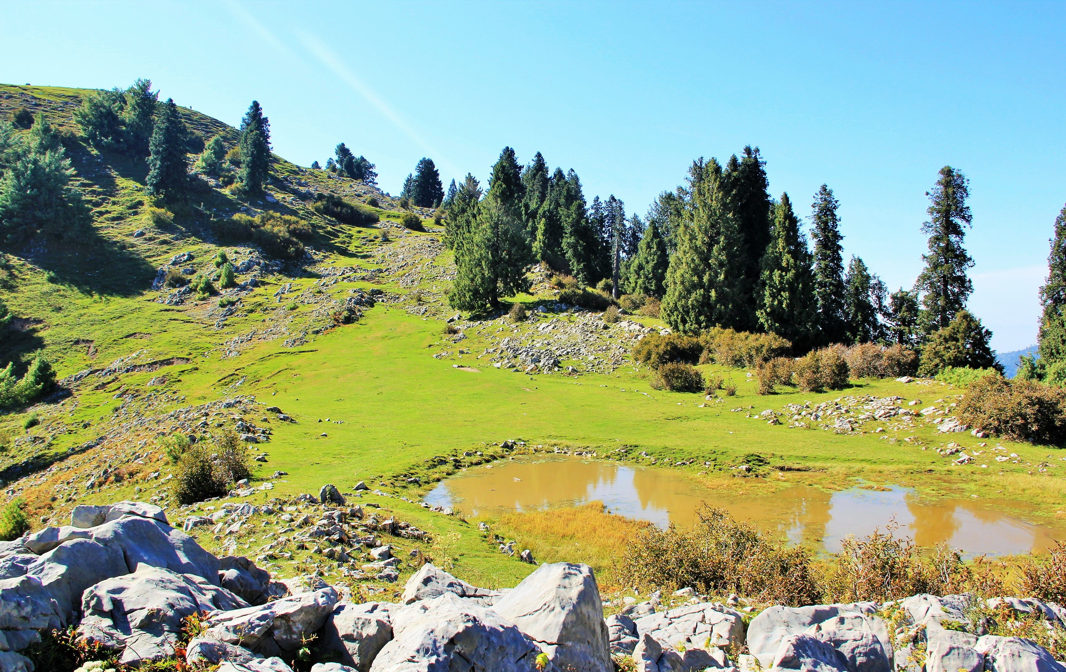 Mushkpuri is the second highest hill of Galyat. It is located in the Hills of Nathiagali in District Abbottabad, Khyber Pakhtunkhwa, Pakistan. There is a three hour long but safe hill trek to the top. It is approximately 9452 feet (2,800 meters) above sea level.